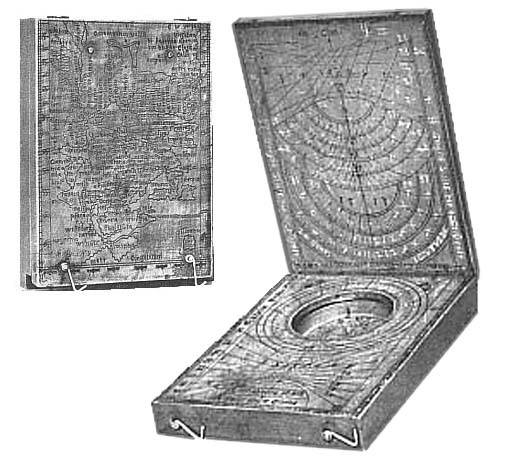 Etzlaub's 1513 sundial ("Kompast" or "Compast"). Size of the instrument, which seems to be kept in USA, is 84 x 116 mm. Instructions on the use of his sundials were given by Etzlaub in Codex ad Compastum Norembergensem which was kept by Staatsbibliothek, Munich, Germany, but seems lost. Note: there are only two of Etzlaub's sundials known to exist. The 1511 item is kept by Germanisches Nationalmuseum, Nuremberg.